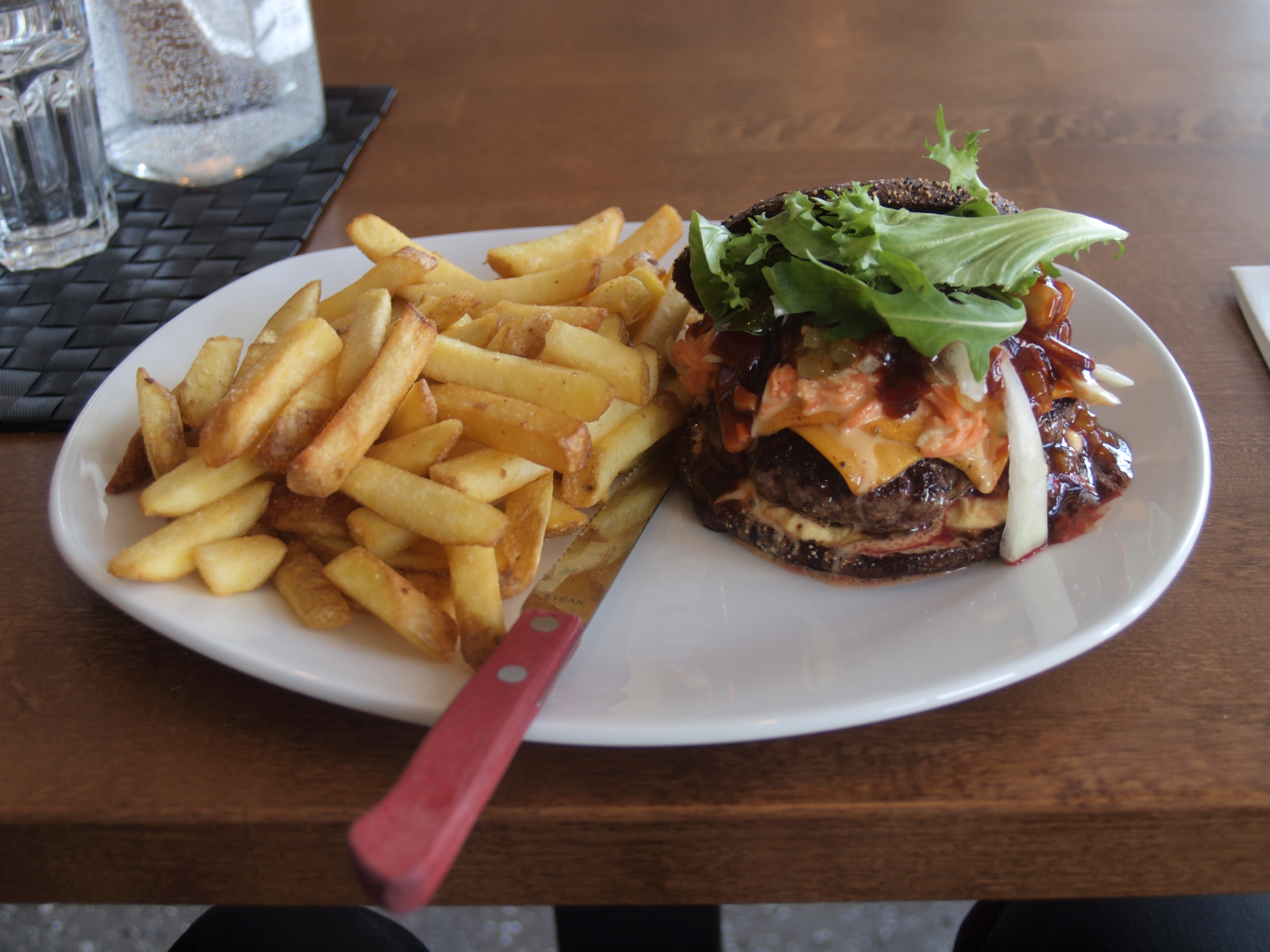 A rye hamburger served in restaurant Buza, Jätkäsaari, Helsinki, Finland.